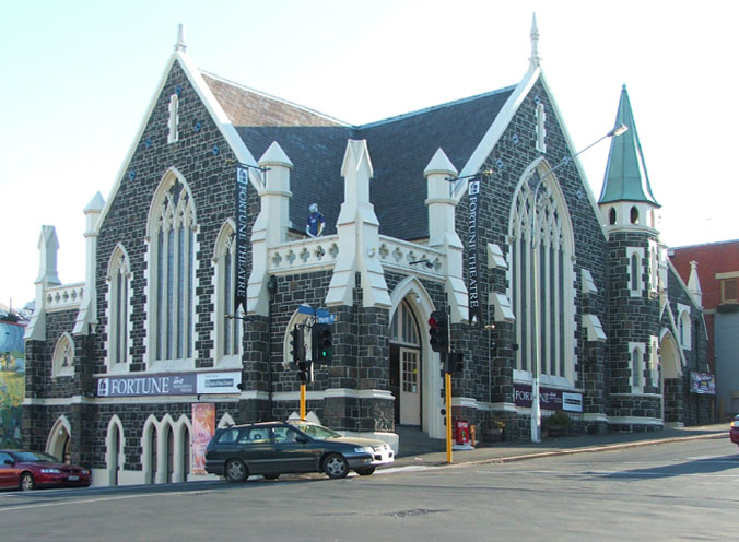 The Fortune Theatre in Dunedin, New Zealand. New Zealand Historic Places Trust Register number: 3378.